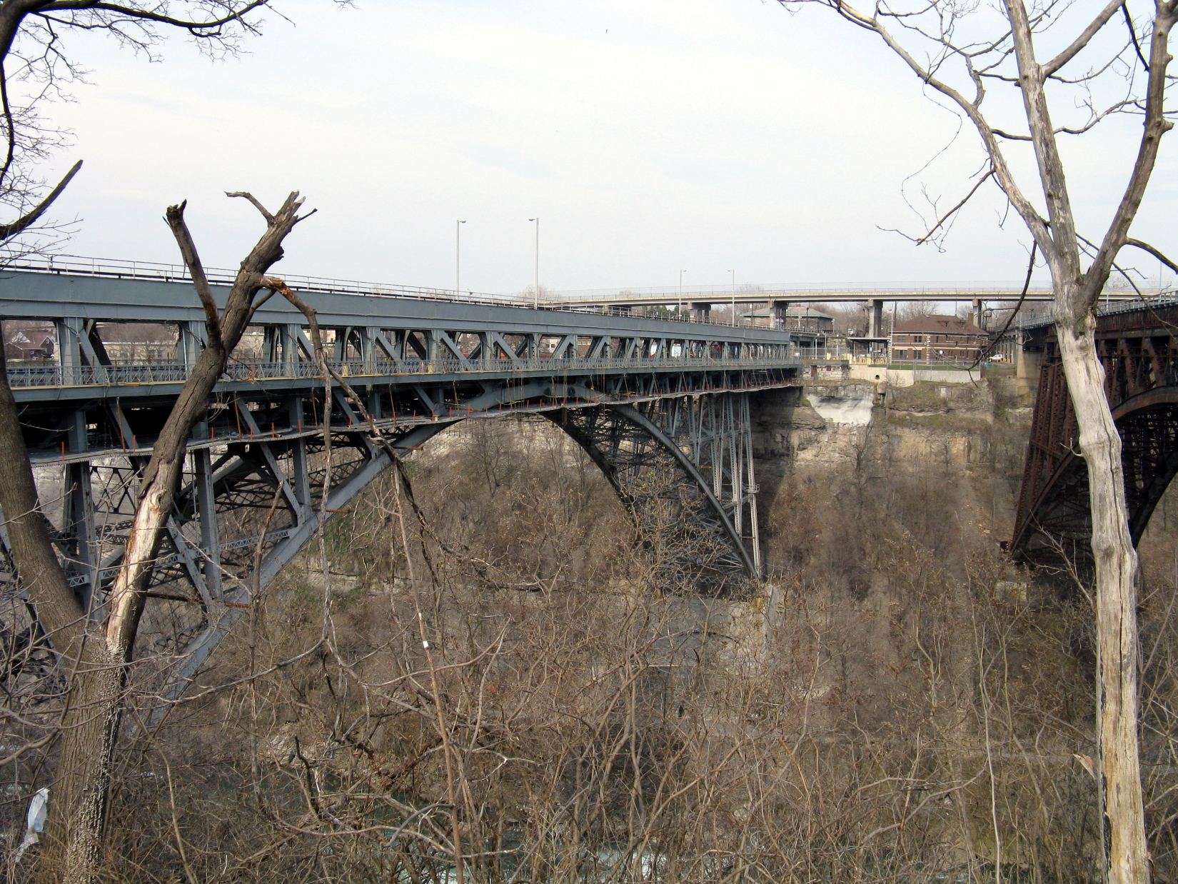 Whirlpool Rapids Bridge in Niagara Falls, Ontario. Adjacent Michigan Central Railway Bridge is also visible on the right of the photo.